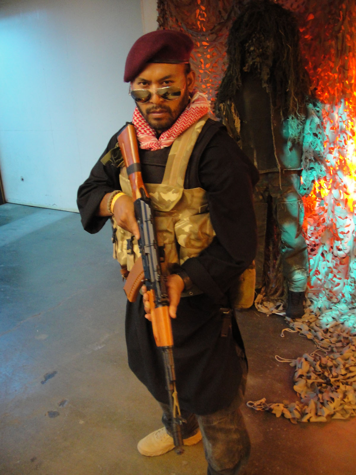 Call of Duty XP 2011 - a costumed soldier